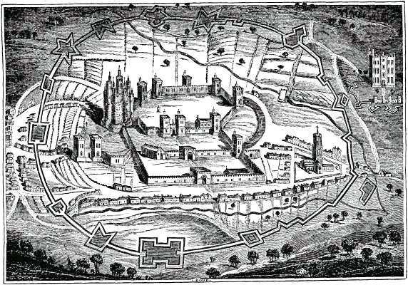 Pontefract Castle and Town, Plan 17th Century